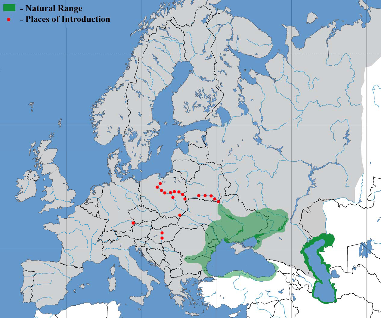 The range of the racer goby (Babka gymnotrachelus)